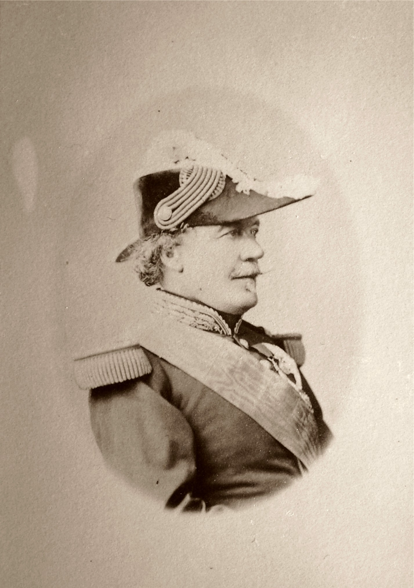 Francoise Certain Canrobert, Marchal of France